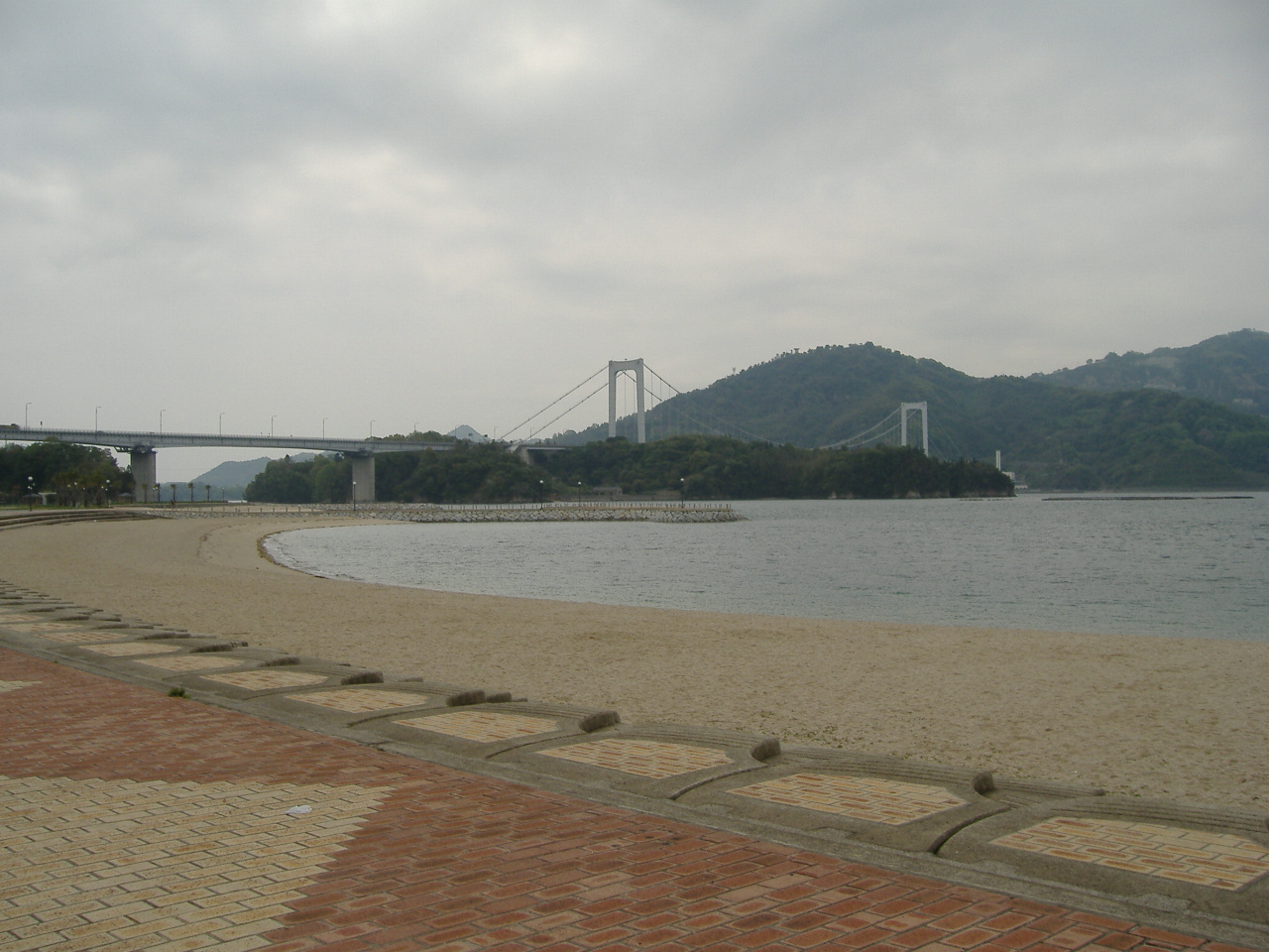 Beach at Michinoeki Hakata S.C Park in Imabari City, Ehime Prefecture, Japan. The Hakata-Oshima Bridge is seen in the background